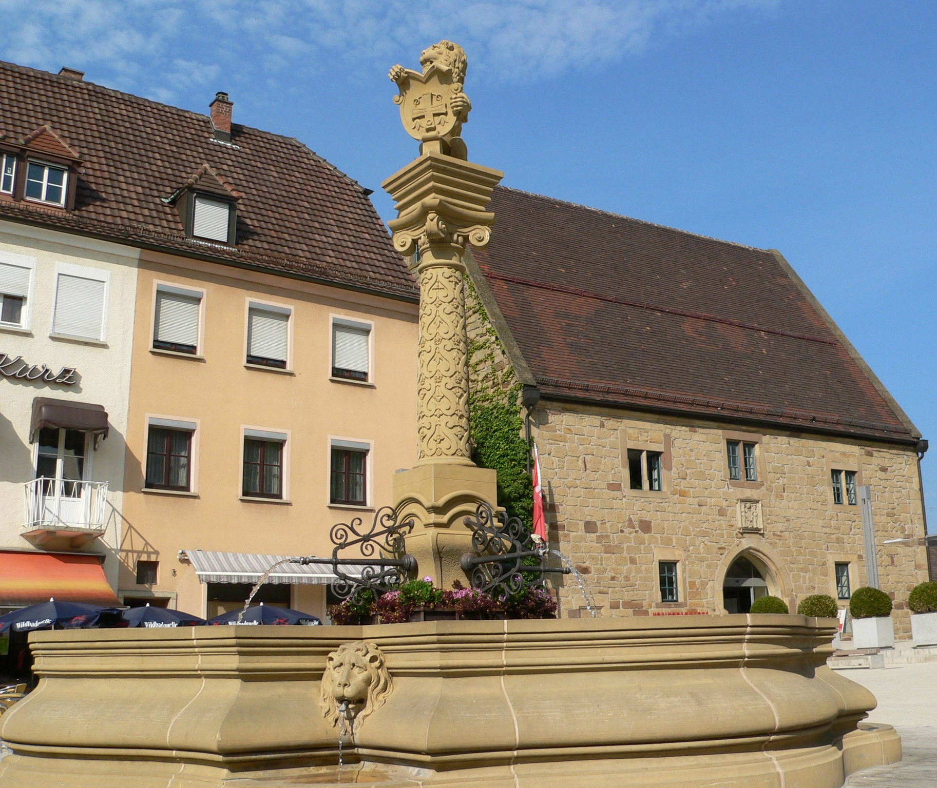 Lions Well (LöwenBrunnen) of the City Neckarsulm